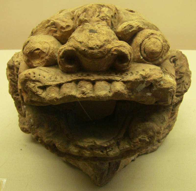 An earthern-ware tiger head for the sake of decorating the palace in Ho Dynasty, Vietnam